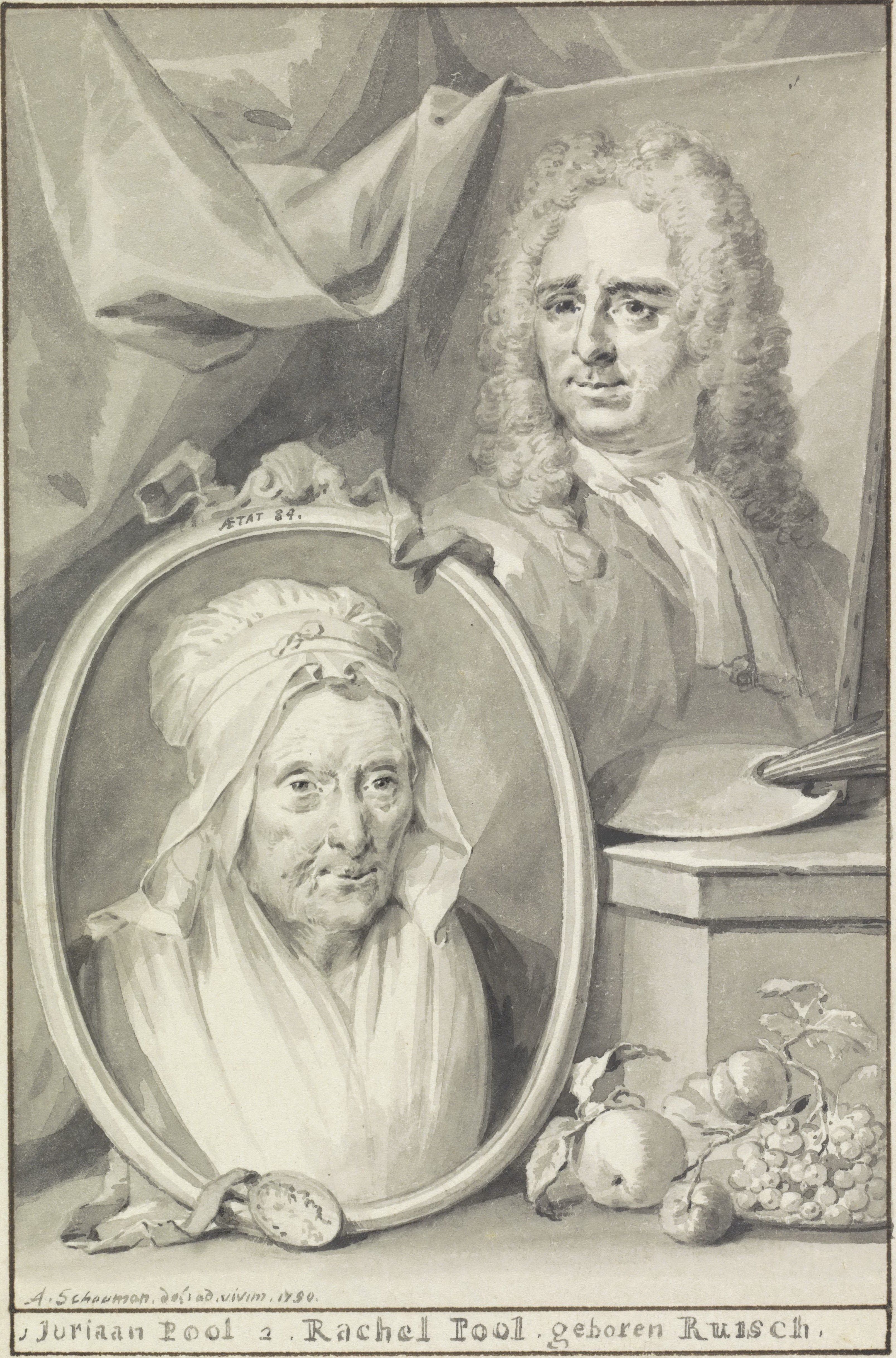 Portraits of Juriaan Pool and Rachel Pool geboren Ruisch